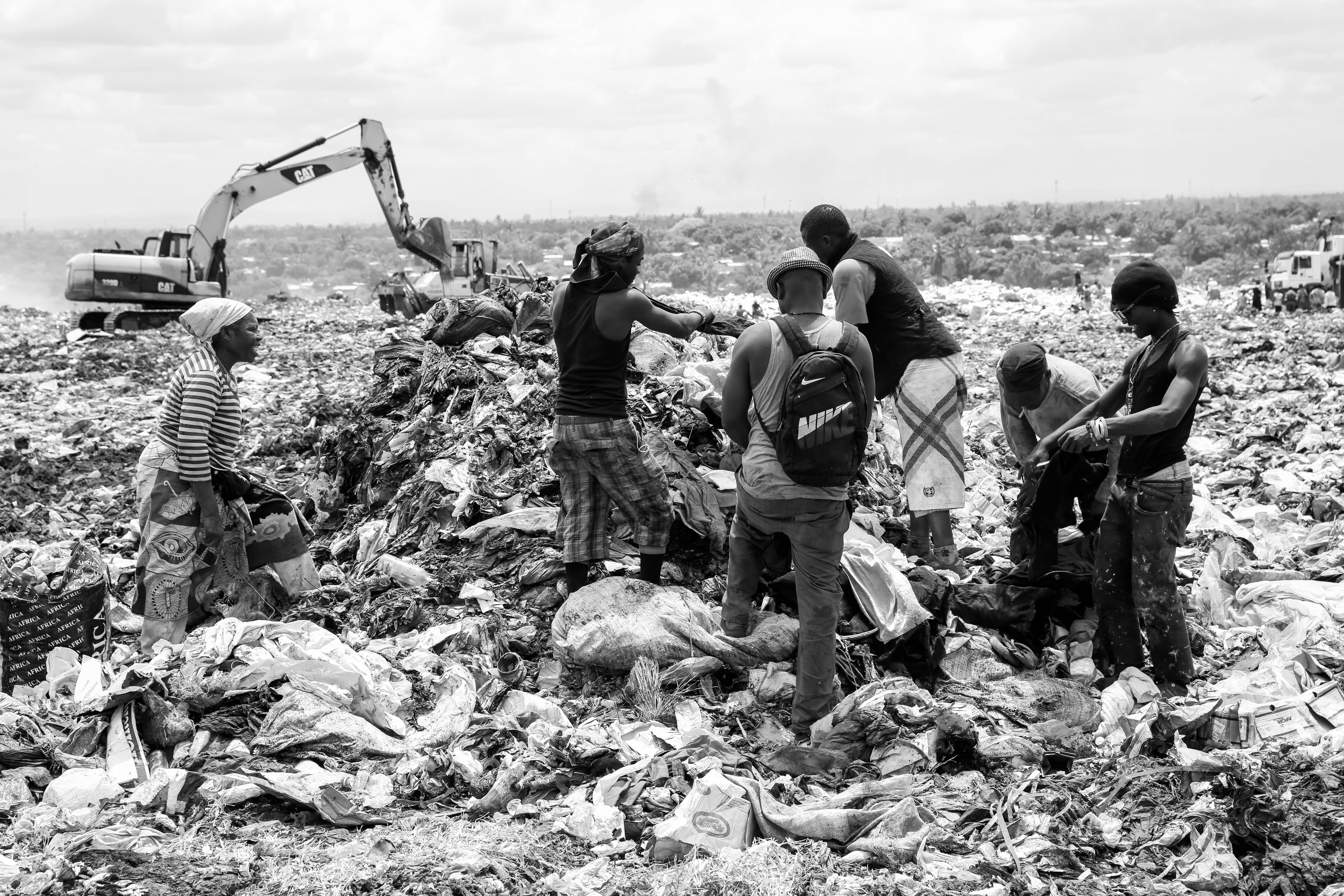 Scenery at the waste dump of Hulene, Maputo, Mozambique